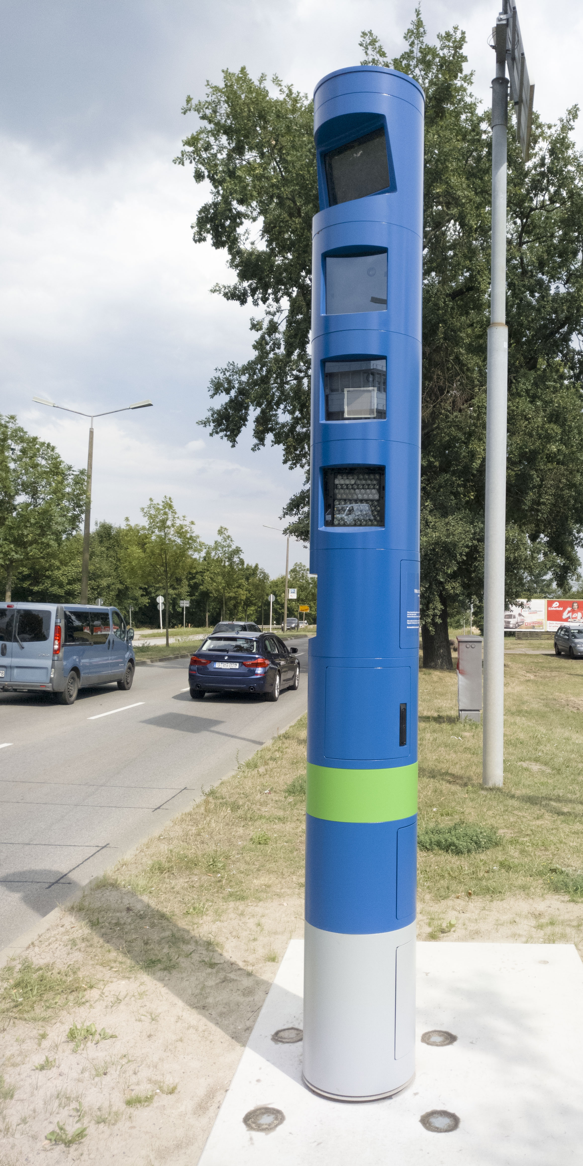 Toll enforcement device No 6605 for HGVs (column) operated by Toll Collect GmbH, installed 2018. Located in Berlin, Germany, along federal road B1,B5 near the eastern state boundary. Blue coloured to avoid confusion with speed enforcement devices.